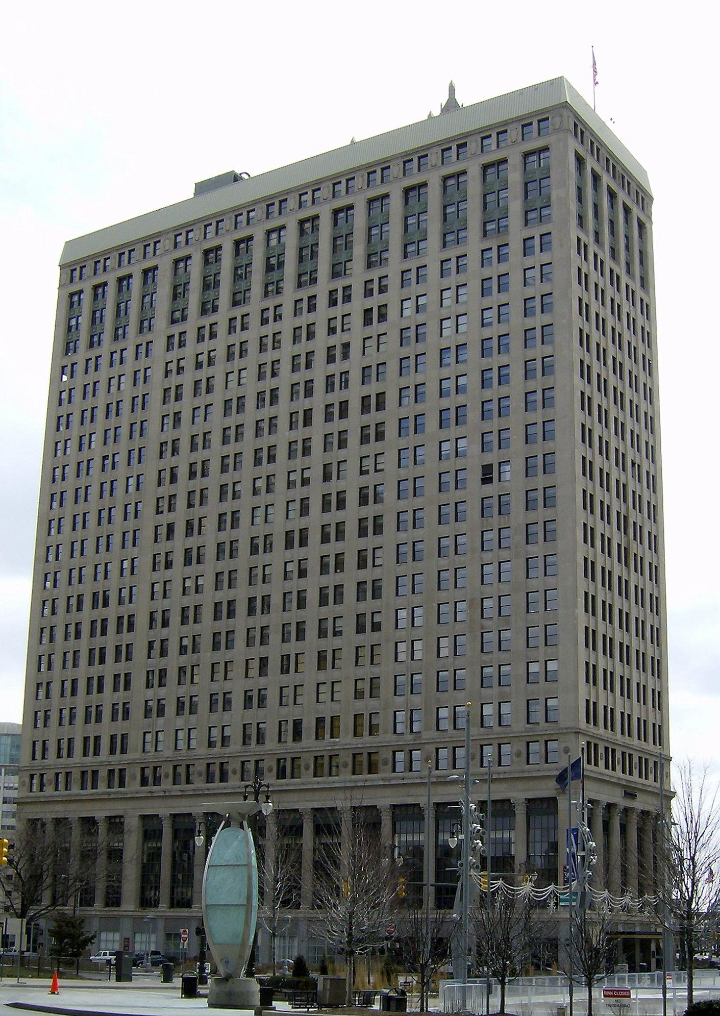 self made